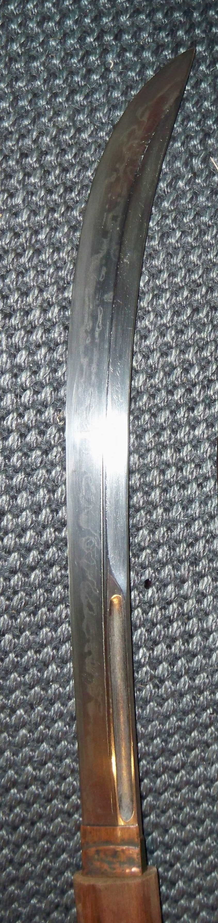 Antique Japanese (samurai) naginata blade.